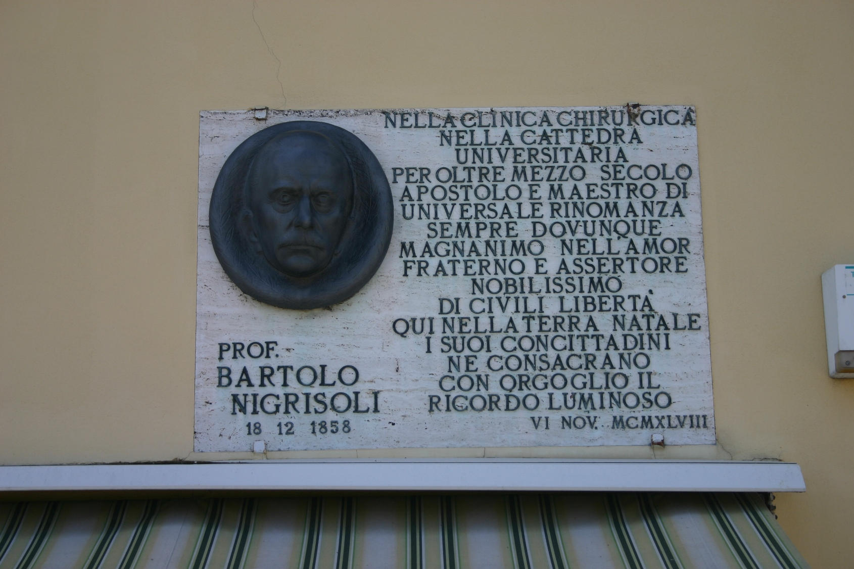 Bartolo Nigrisoli's memorial tablet